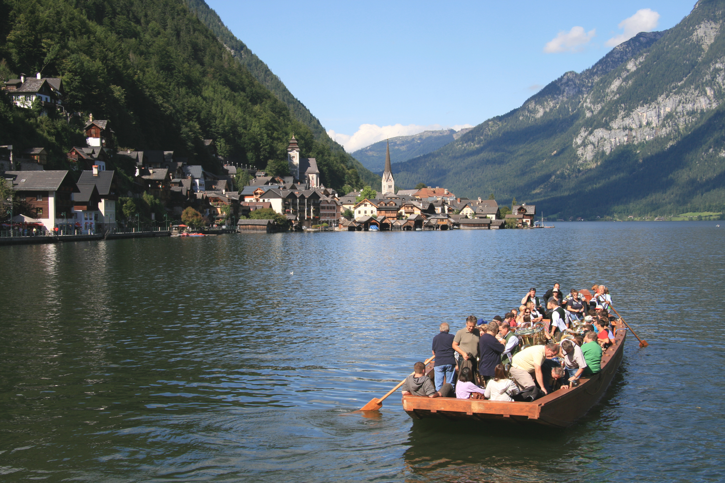 View from ship from lake Hallstätter See to small city Hallstatt, Upper Austria